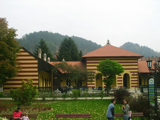 Town of Gračanica in Bosnia and Herzegovina